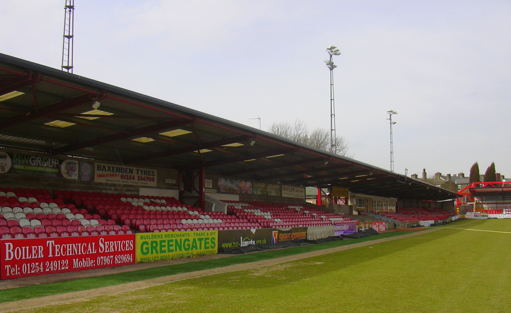 The Main Stand at Accrington Stanley Football Club, Fraser Eagle Stadium, Livingstone Road, Accrington, Lancashire BB5 5BX